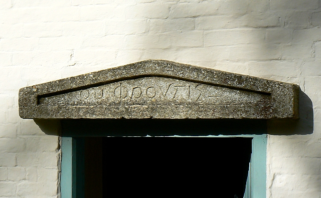 Engraving over doorway, Clouds Hill, Dorset The engraving is said to have been made by the most famous occupant of the simple cottage, Lawrence of Arabia. It is in ancient Greek and loosely translates to 'why worry?' or so I understand.